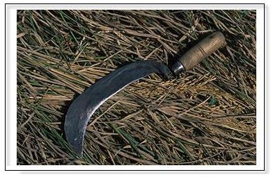 Picture of a Indian Knife